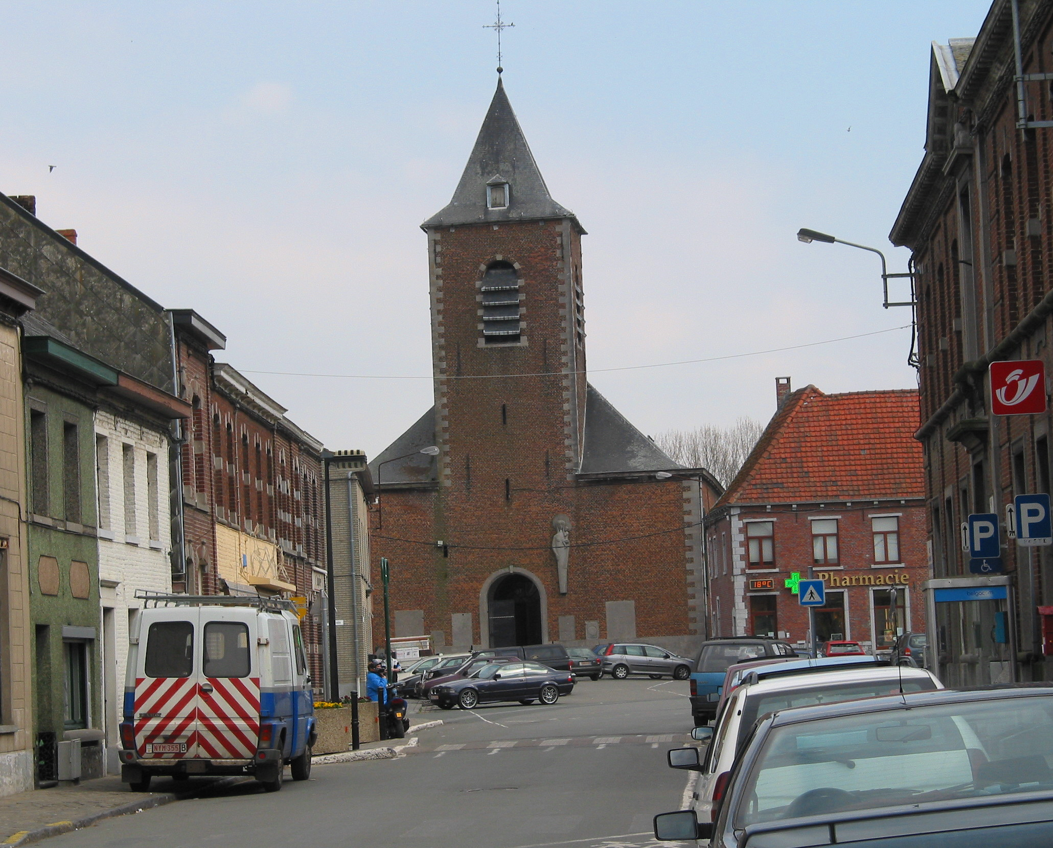 Naast (Belgium), the Saint Martins' church (XVIIIth century).